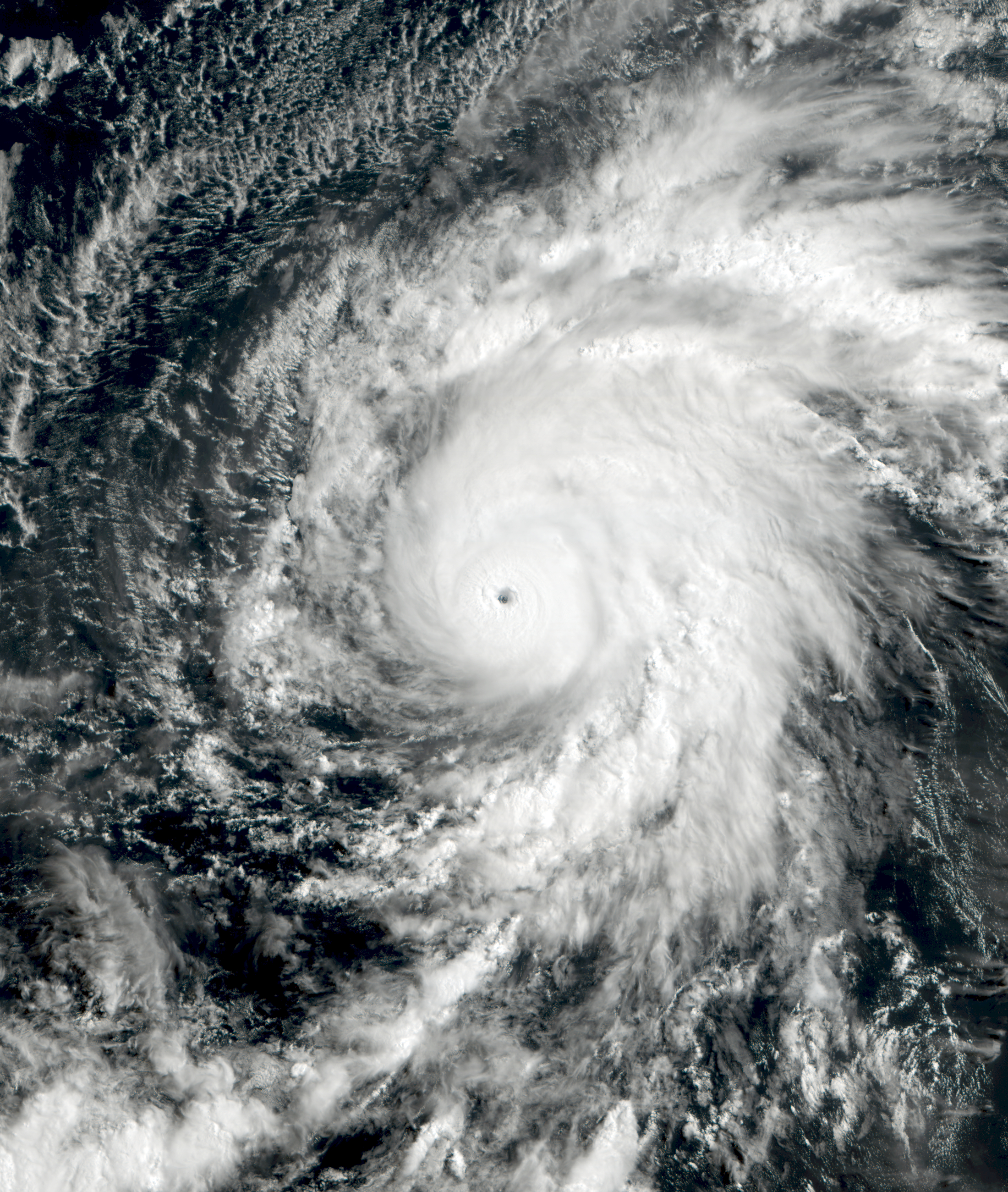 Hurricane Erick on July 30, 2019